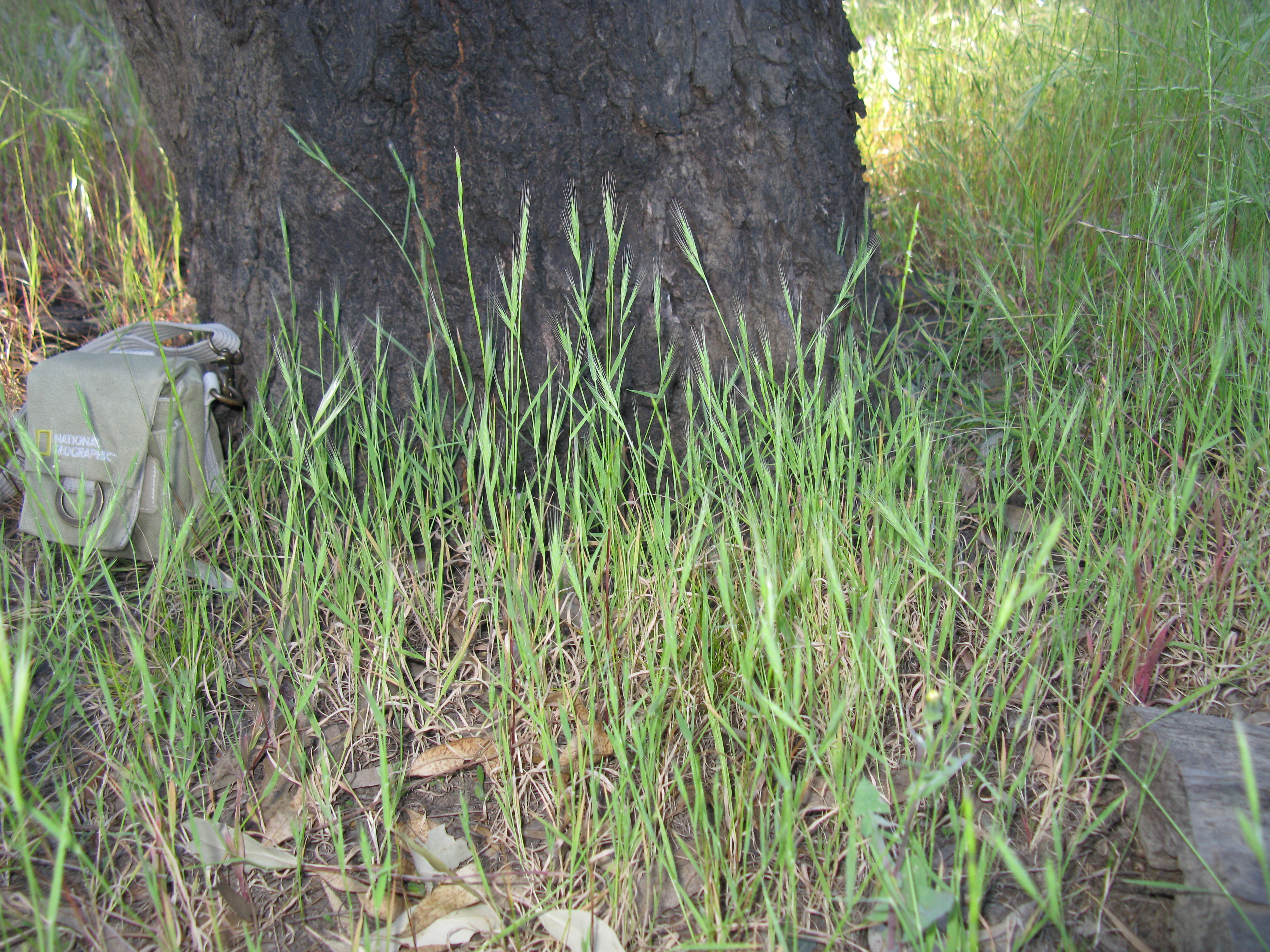 Introduced, cool-season, annual, erect, loosely tufted grass to 50 cm tall with conspicuously hairy nodes; stems often with a knee bend. Found in disturbed areas and generally classed as uncommon, but this site in a red gum open forest just outside Narrandera has 1000s of plants. Several other large populations were seen on the same day. Looks a bit like a short, spindly Common Wheatgrass (Anthosachne scaber), so is probably under collected.